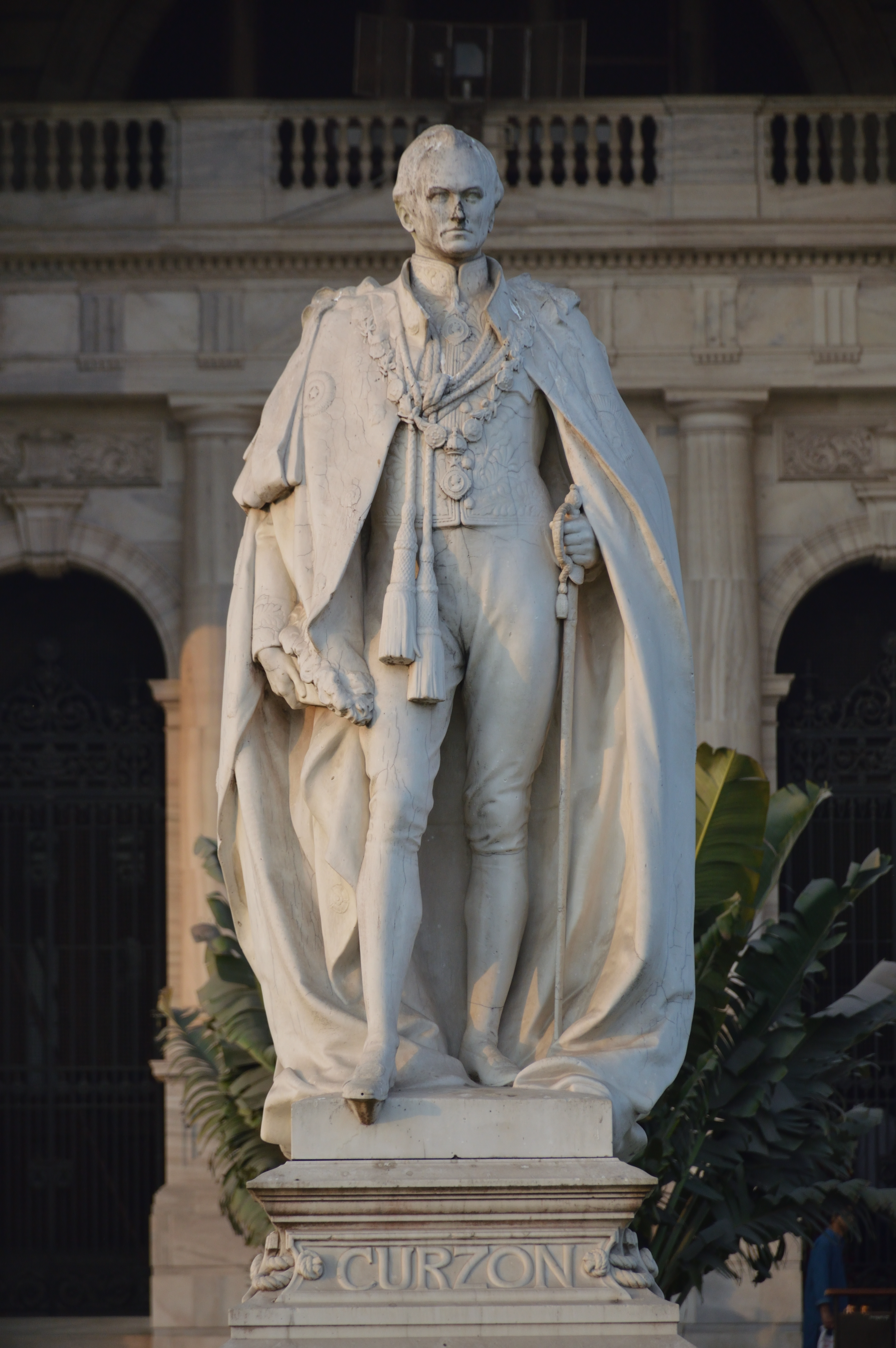 This photograph was taken in Kolkata.